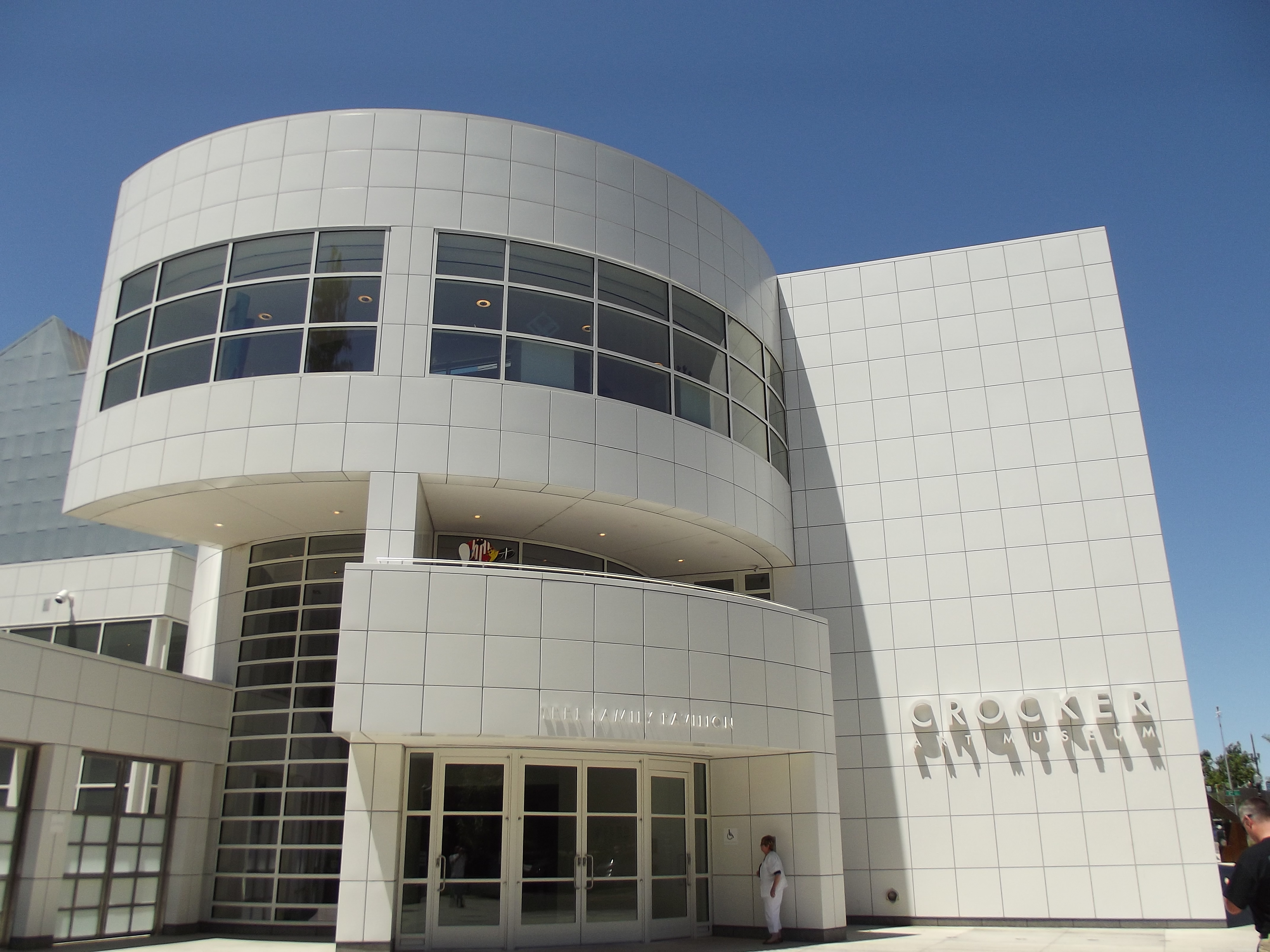 The new main entrance to the crocker Art Museum in Sacramento California.